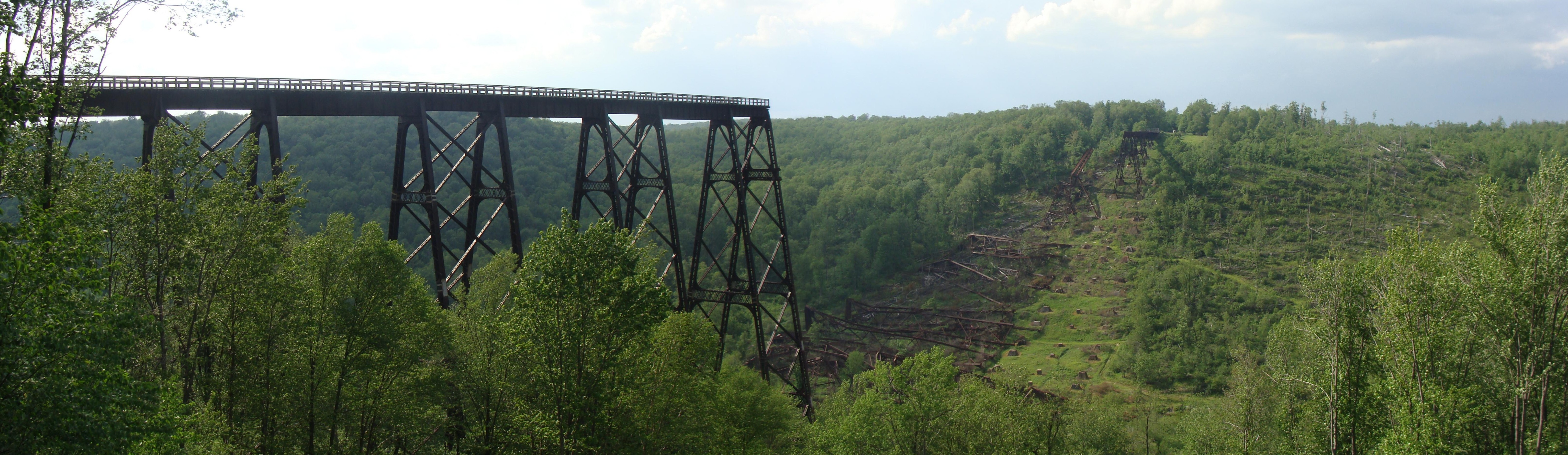 Panorama of the Kinzua Valley showing the collapsed Kinzua Bridge in McKean County, Pennsylvania. Originally two horizontal photos.